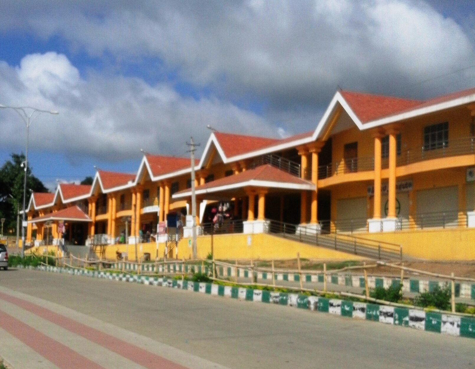 Malai Mahadeshwara Hills, Kollegal, Chamarajanagar district, Karnataka province, India.